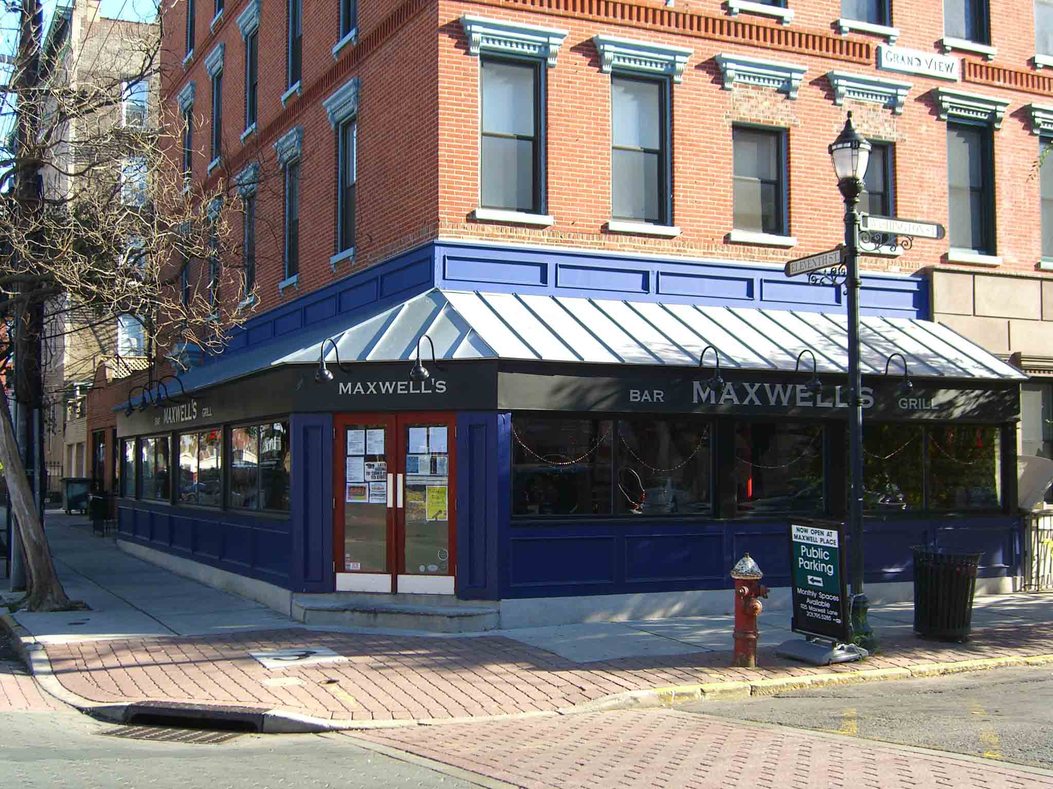 Maxwell's, a music club in Hoboken, New Jersey, as seen on November 7, 2011. This photo was created by Luigi Novi. It is not in the public domain, and use of this file outside of the licensing terms is a copyright violation.